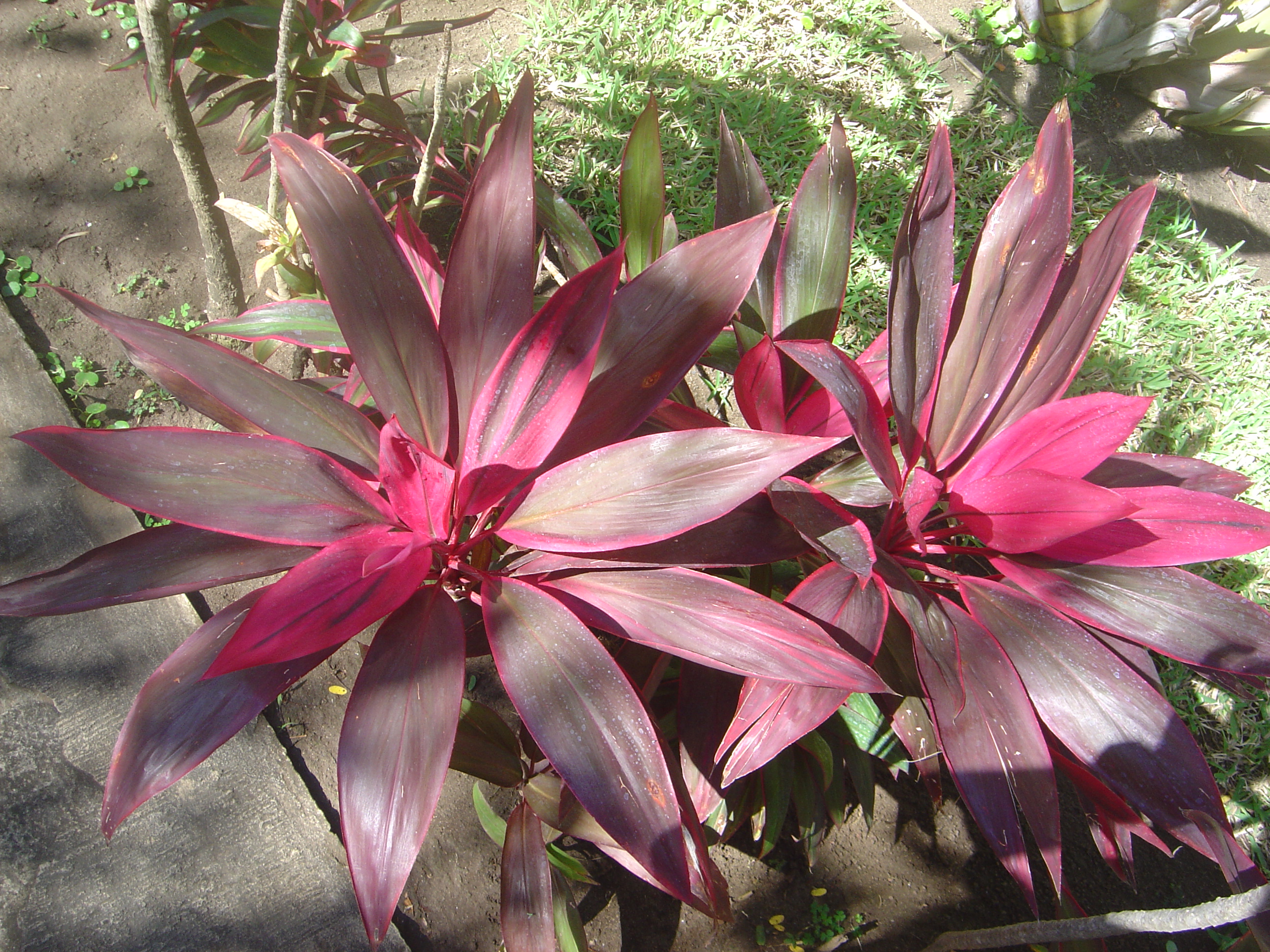 Photograph taken at the Jardin d'Éden botanical park, Saint-Gilles les Bains (commune of Saint-Paul), Réunion Island (Indian Ocean, a part of the French Republic).